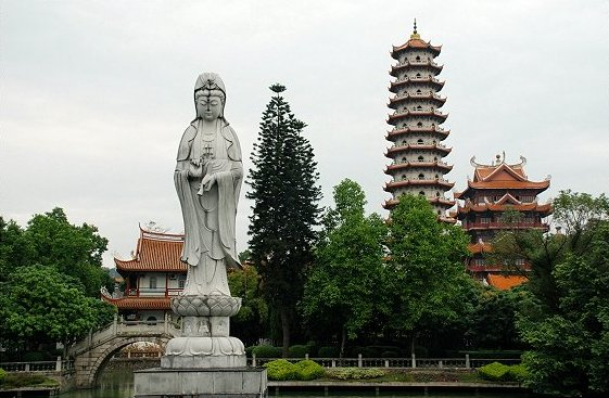 Xichansi (Să̤-sièng-sê) Temple in Fuzhou, China